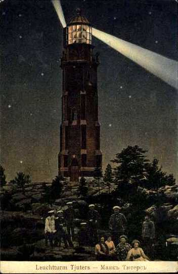 lighthouse at Bolshoy Tyuters